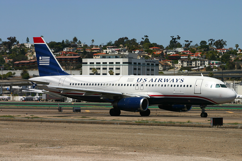 US Airways/America West Airlines A320-231 at San Diego International Airport in San Diego, California